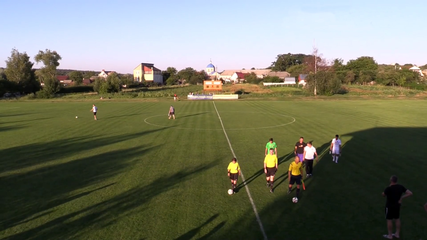 Saltik Stadium in Mala Soltanivka, Vasylkiv Raion, Kyiv Oblast, Ukraine